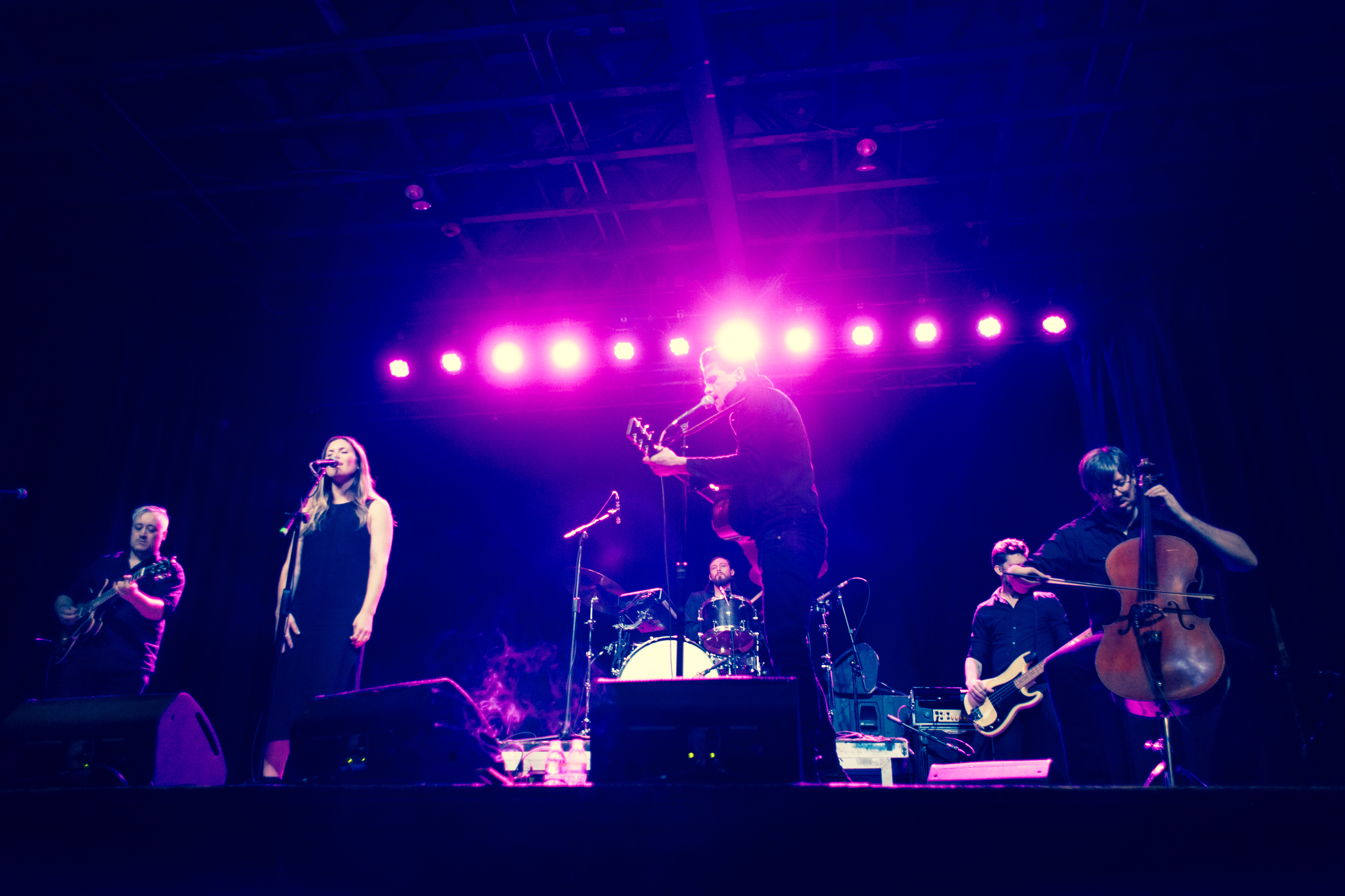 Young Oceans in concert on August 23, 2018 at EXIT/IN, Nashville, TN.